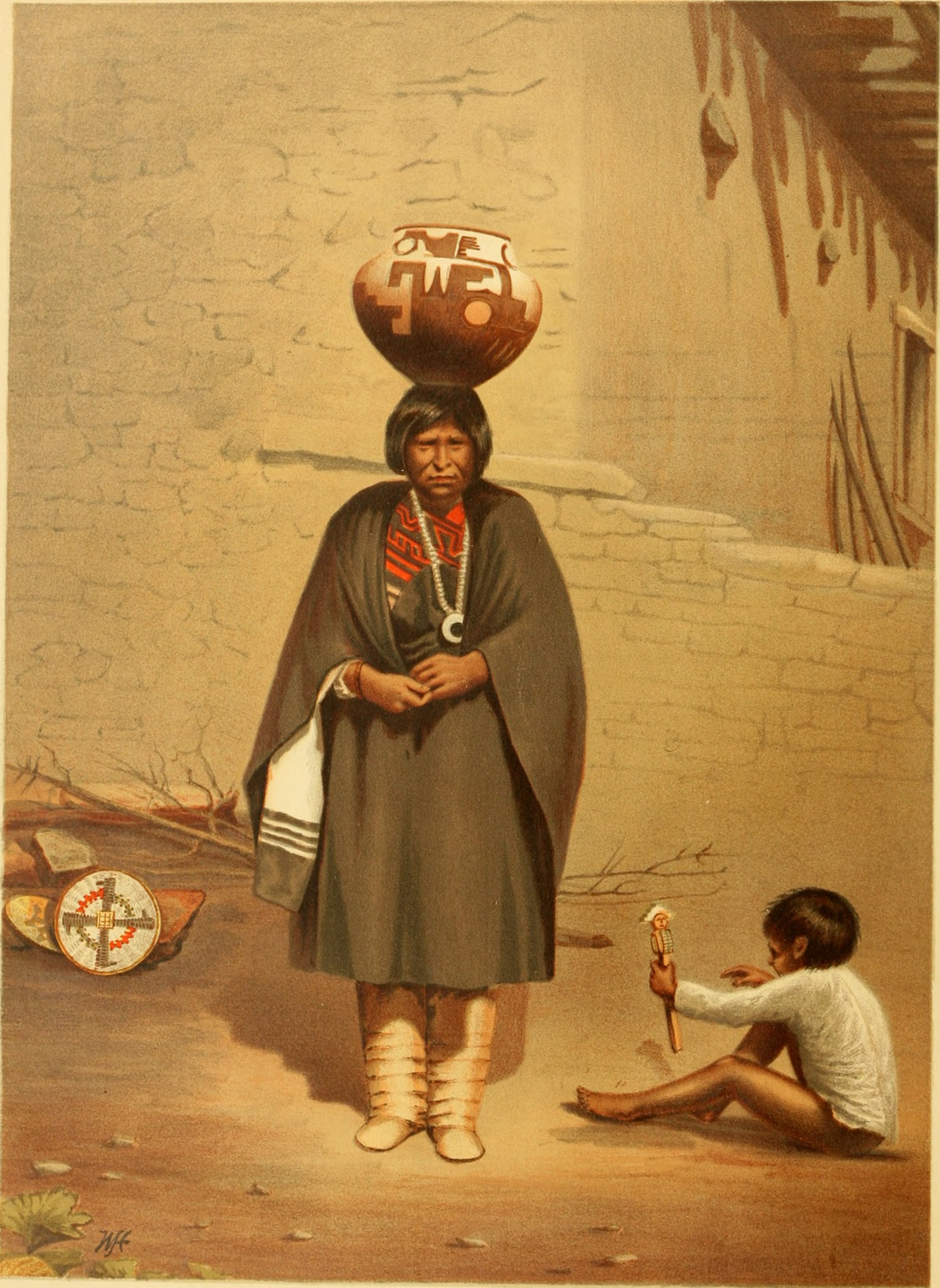 Title: Contributions to North American ethnology. Vol. I-VII, IX Year: 1877 (1870s) Authors: Powell, John Wesley, 1834-1902; Geographical and Geological Survey of the Rocky Mountain Region (U. S. ); Smithsonian Institution. Bureau of American Ethnology Subjects: Indians of North America; Ethnology Publisher: Washington : Govt. Print. Off. Text Appearing Before Image: ' Text Appearing After Image: 2UNI WATER CARRIER